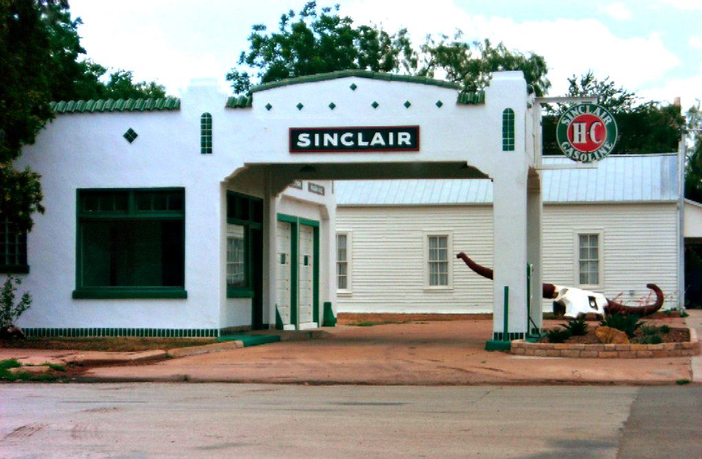 A restored Sinclair station in Albany, Texas